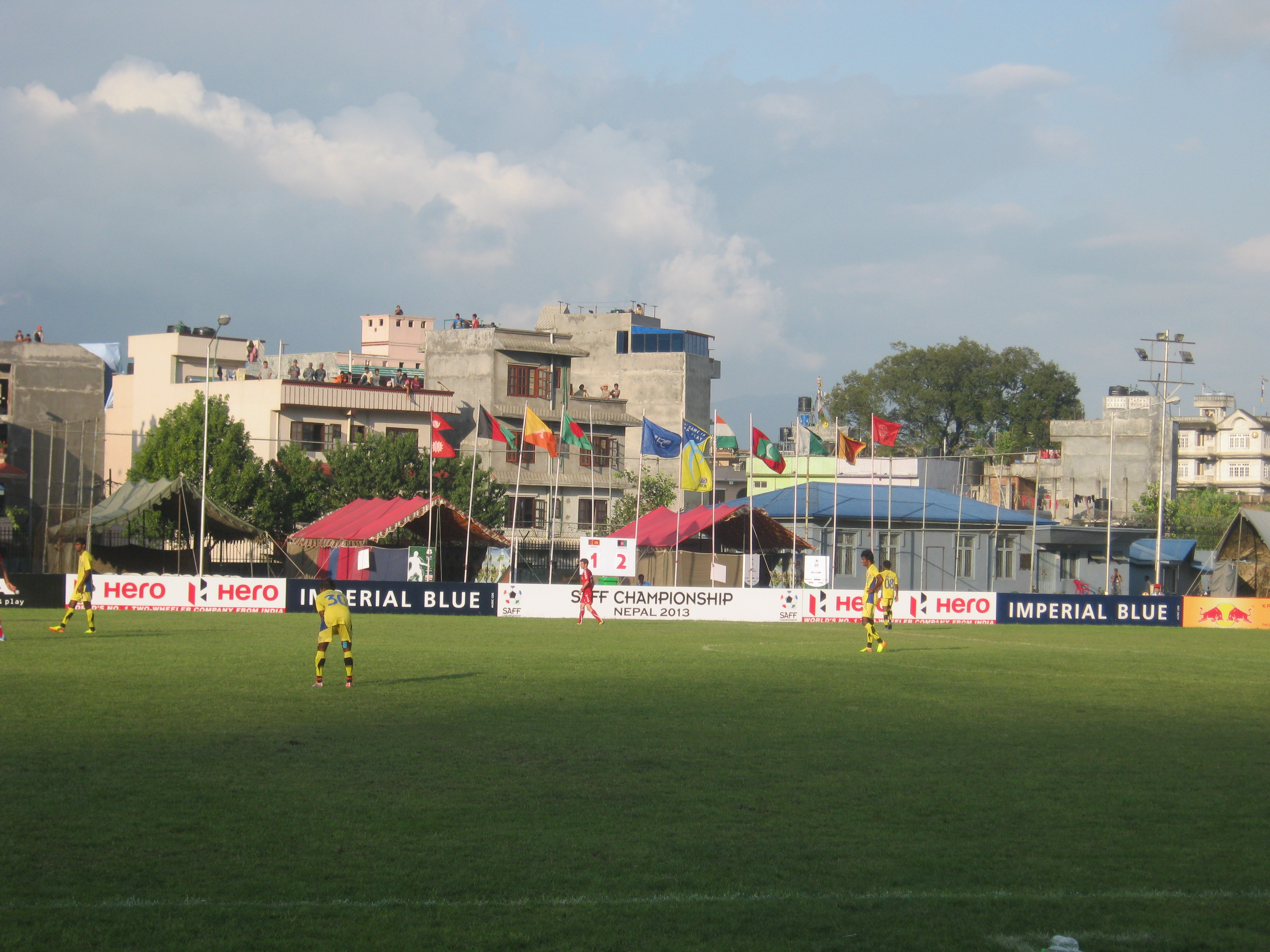 SAFF Championship 2013 Afghanistan vs Srilanka